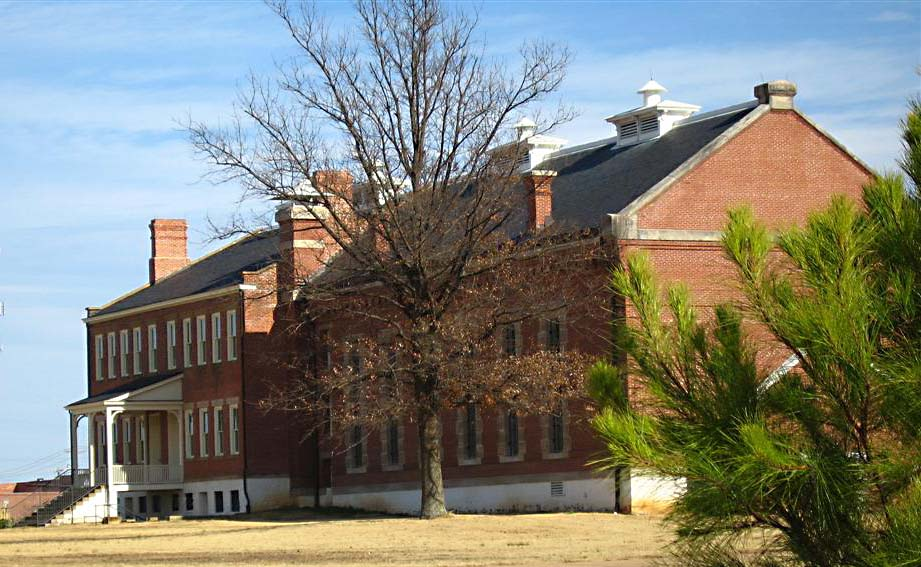 Photo of the Courthouse at the Fort Smith National Historic Site at Fort Smtih, Arkansas taken 01/15/06